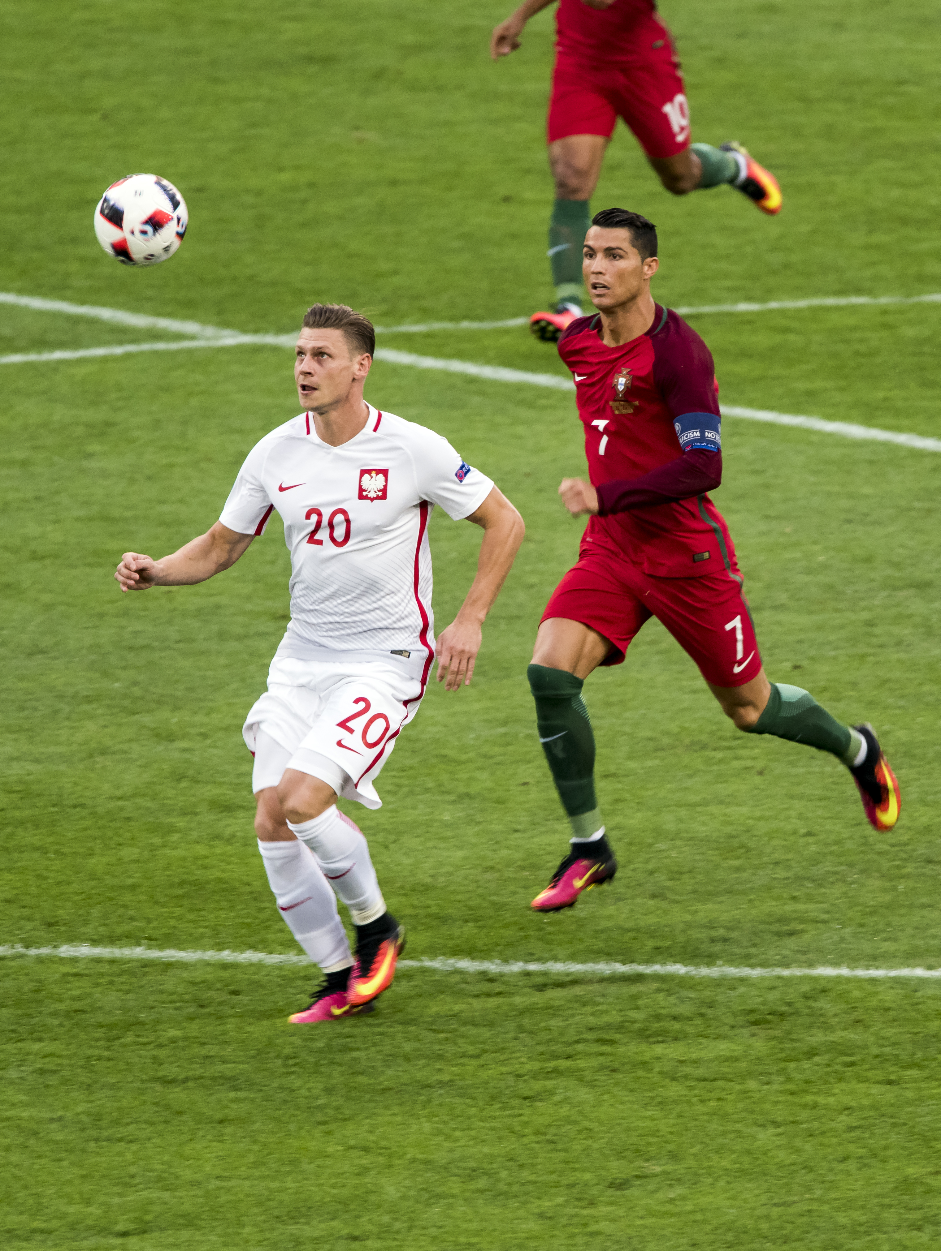 Łukasz Piszczek playing for Poland against Portugal at the UEFA Euro 2016 with Cristiano Ronaldo behind him